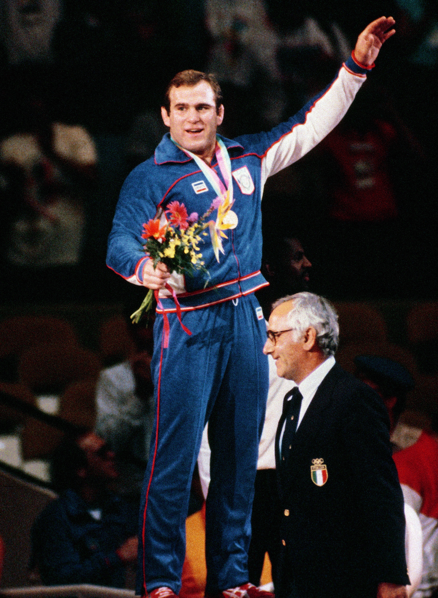 Edward Banach waves after receiving a gold medal in the 90 kg freestyle wrestling competition at the 1984 Summer Olympics. Banach is the twin brother of Army Second Lieutenant Ludwig Banach, also a member of the wrestling team. (original text)